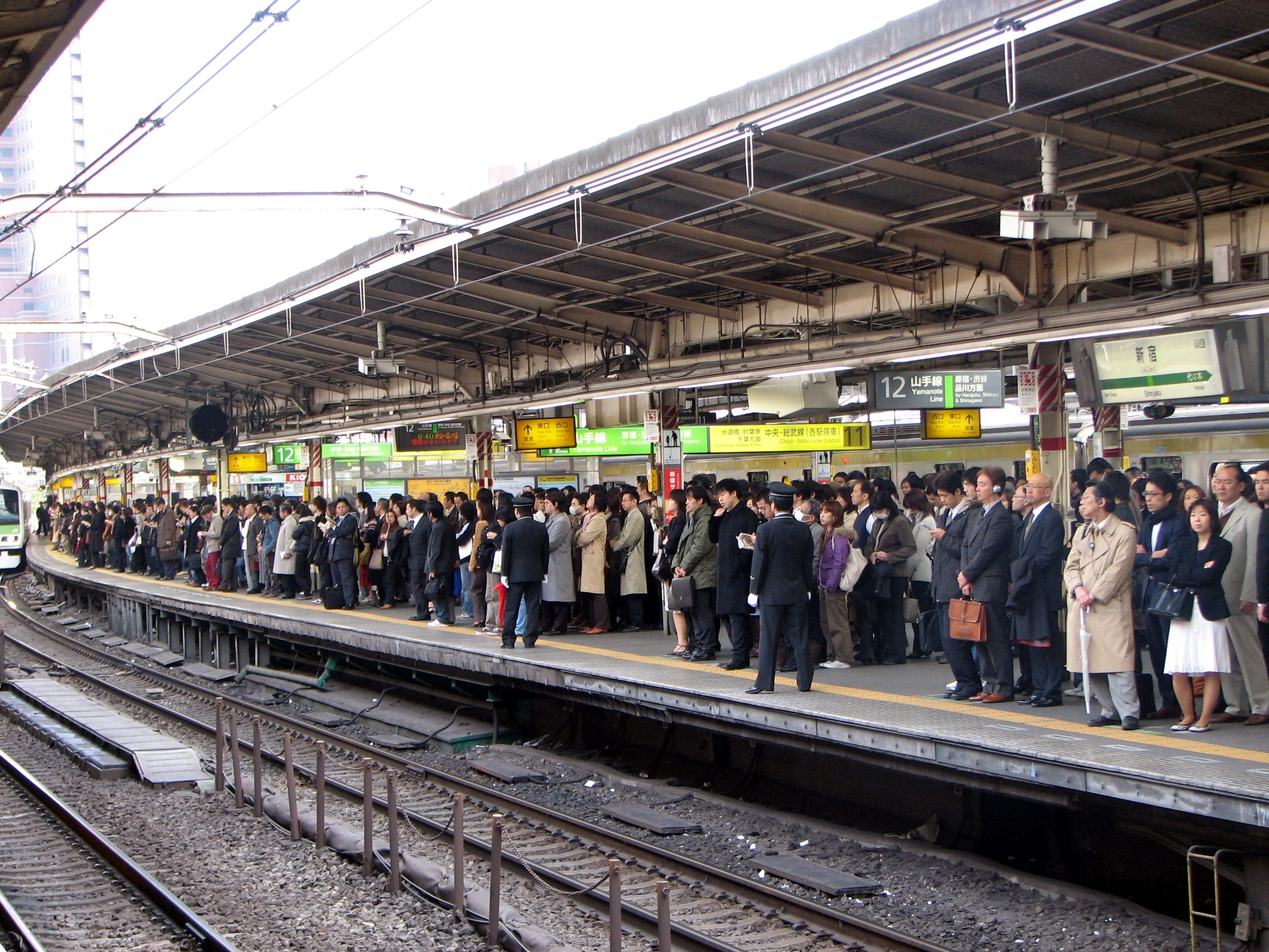 Rush hour at Shinjuku station, Yamanote line and Chūō-Sōbu Line.